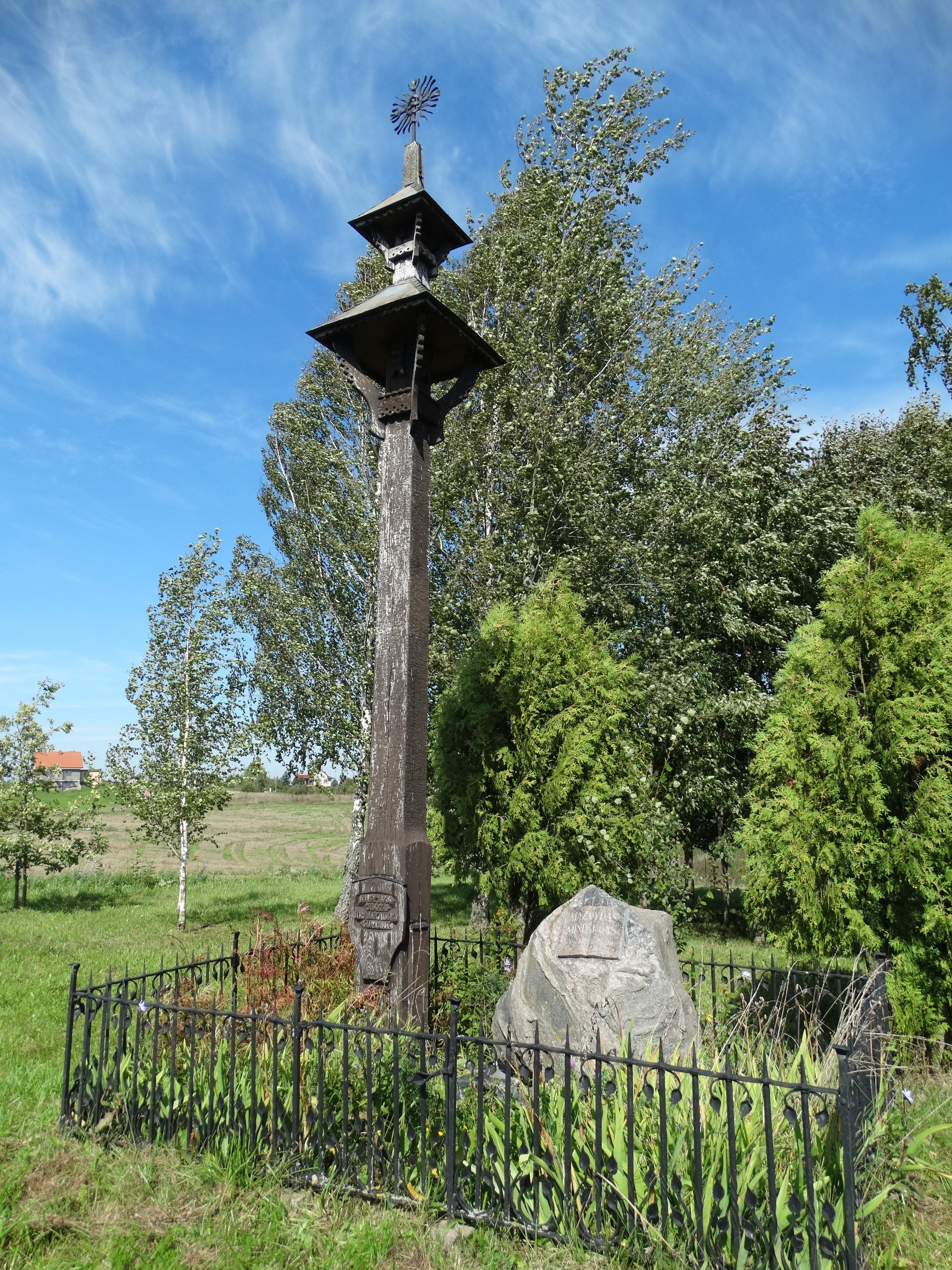 Roadside memorial to Juozas Kralikauskas, Kareivonys, Elektrėnai Municipality, Lithuania